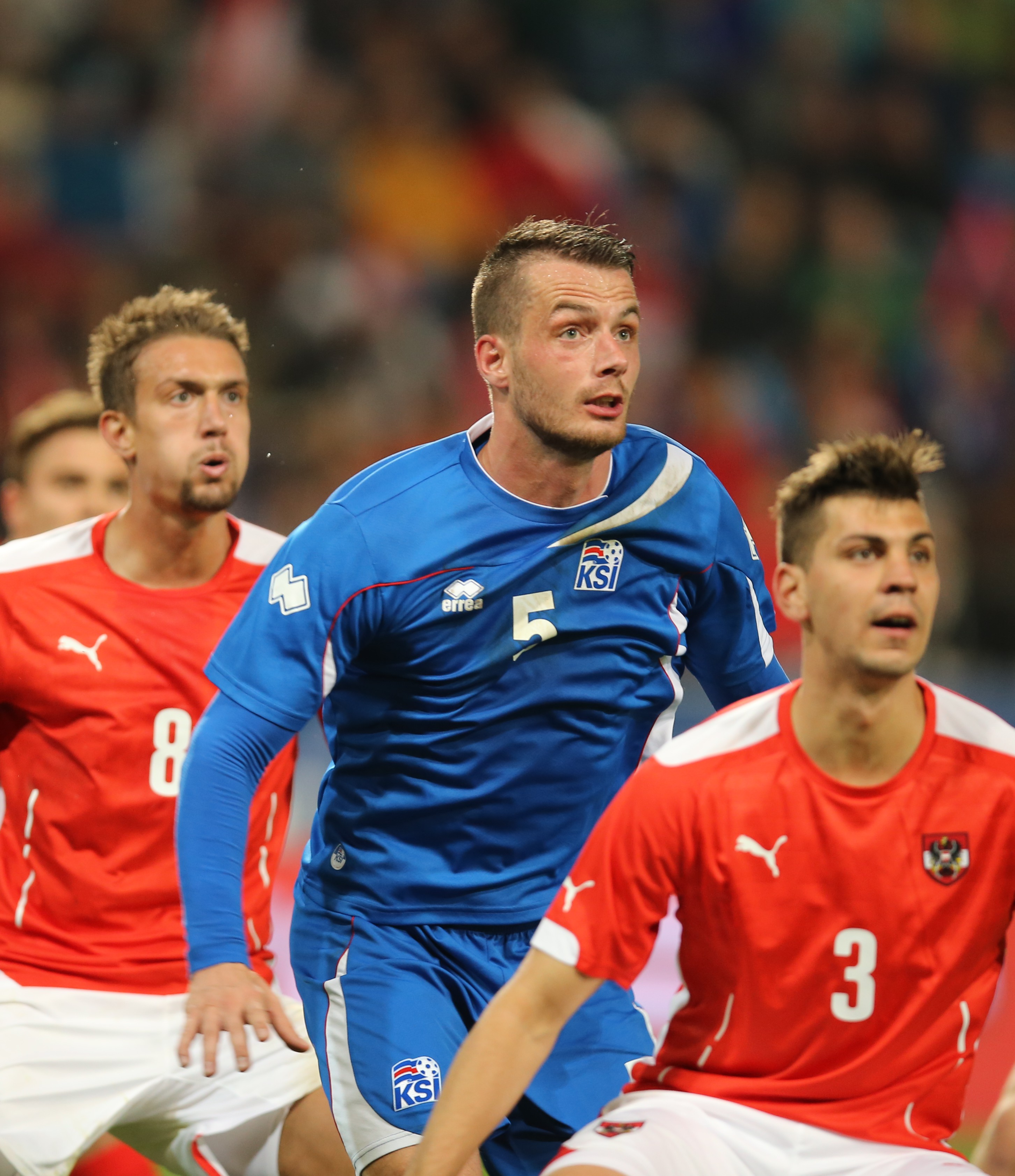 Austria - Iceland football match in Innsbruck, Austria on 2014-05-30. Austria in red, Iceland in blue.